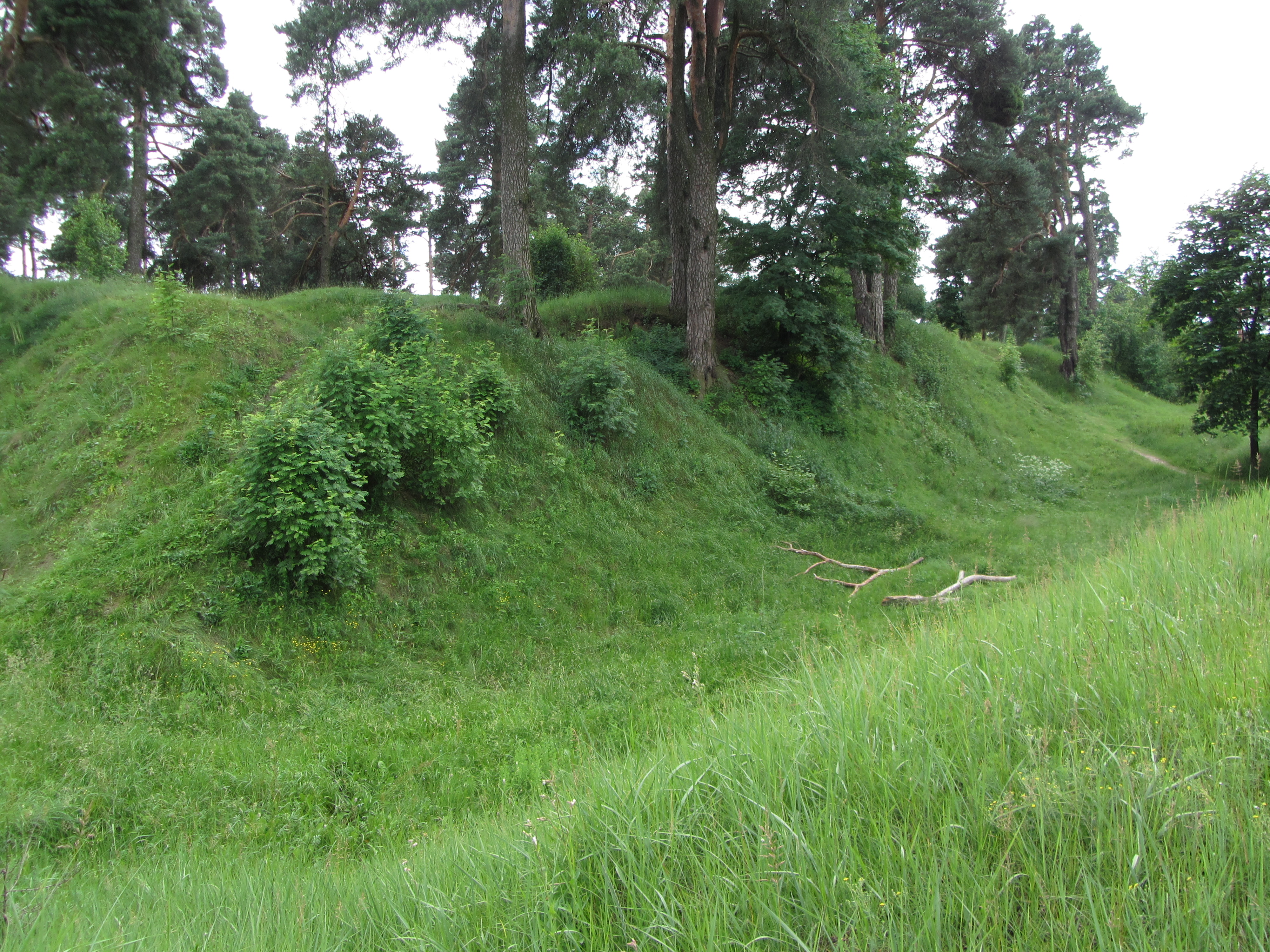 Military enforcements of 1812 in Barysau, BelarusБеларуская (тарашкевіца): Батарэі 1812, Барысаў